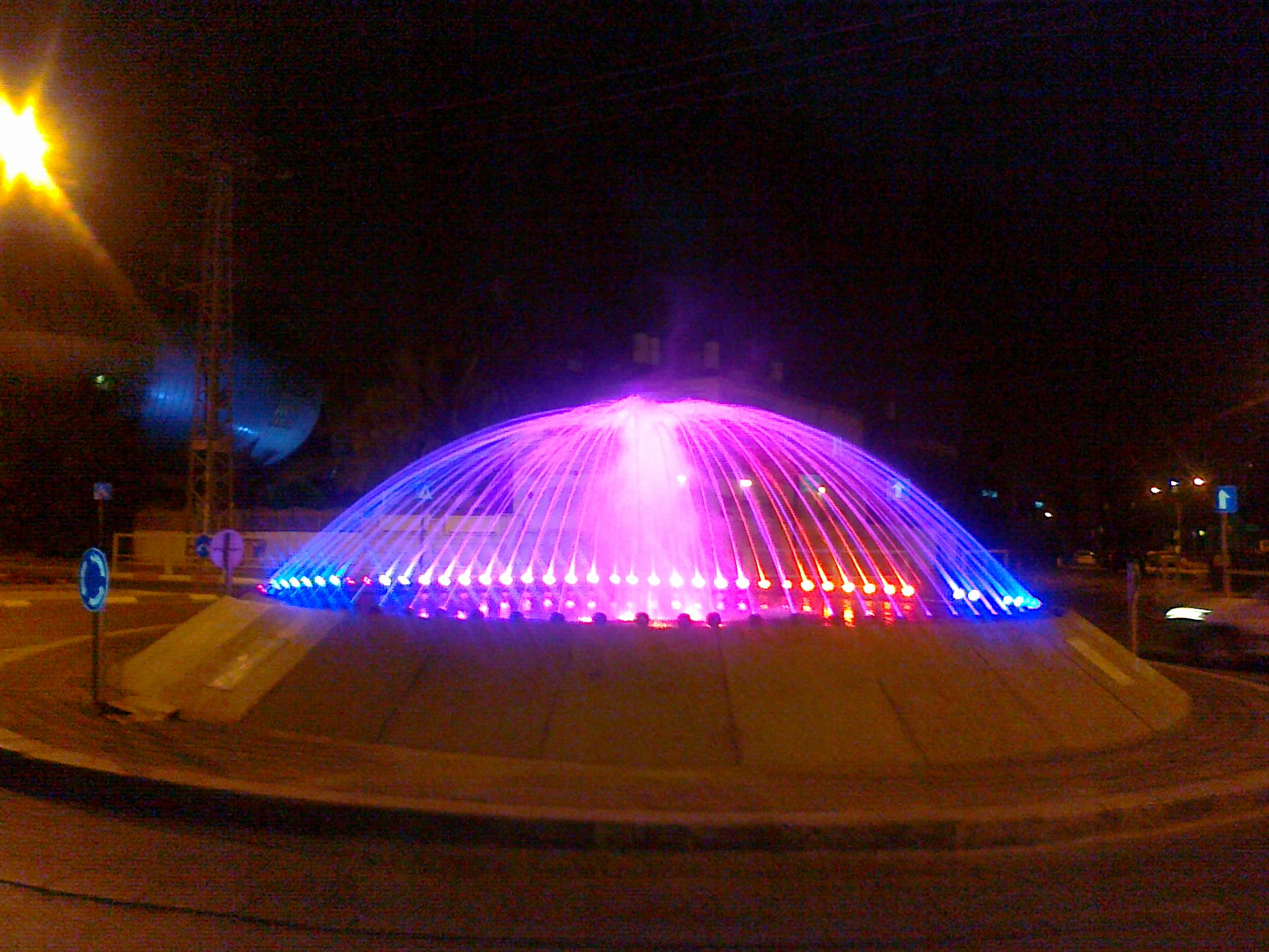 Fountain at College Square, Beersheba 2013